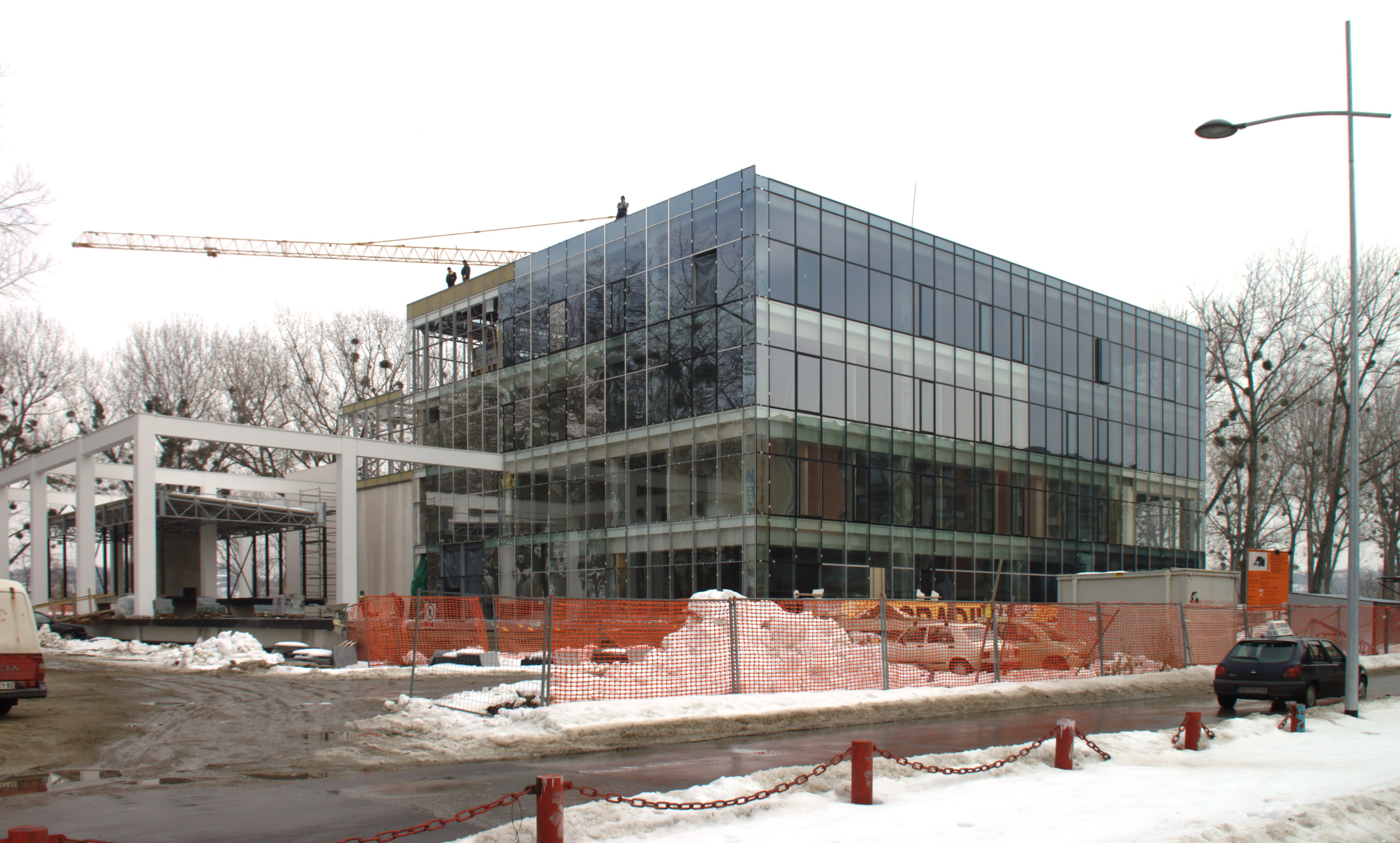 New rectorate building is under construction in Liman, Novi Sad, Serbia